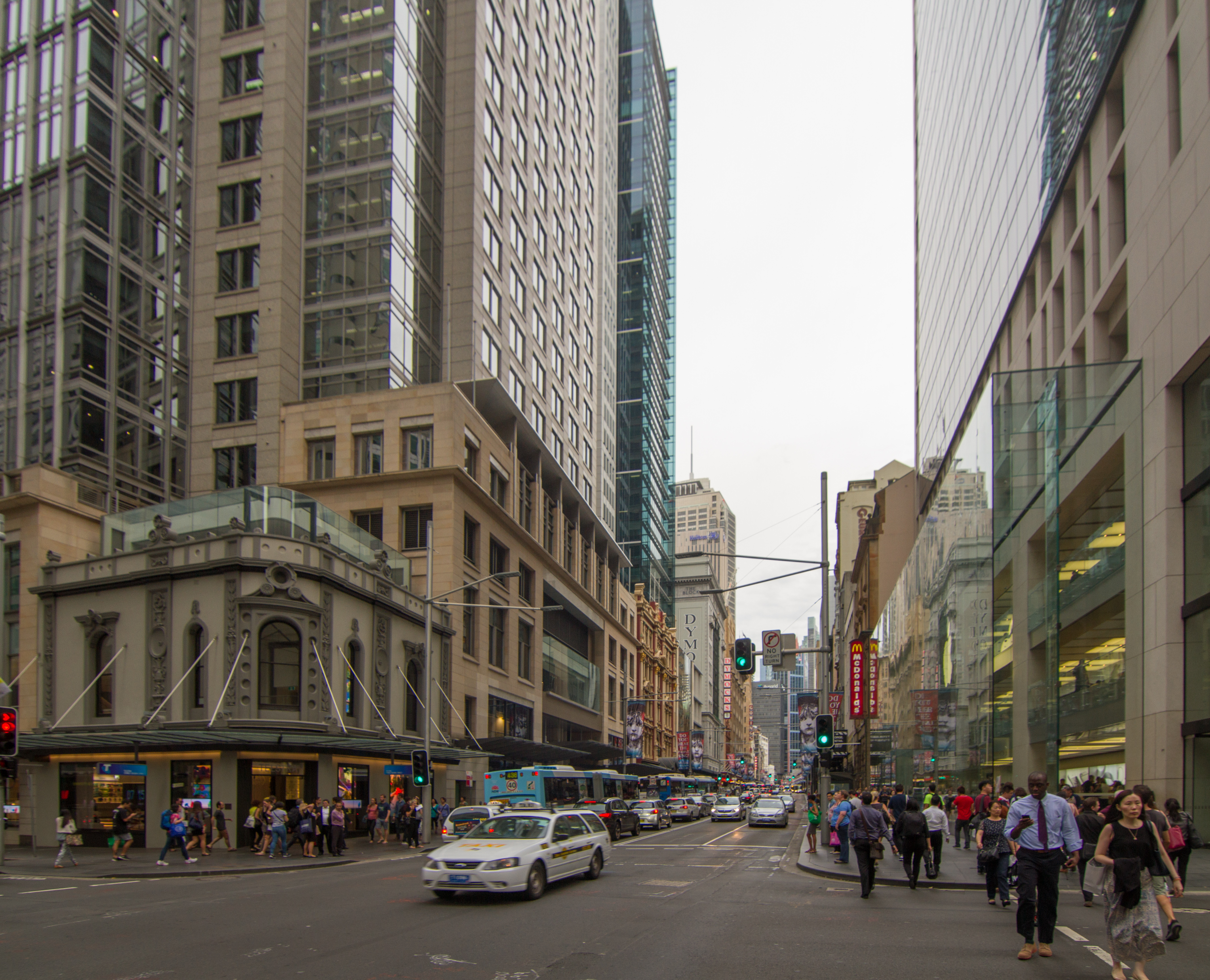 George Street, Sydney